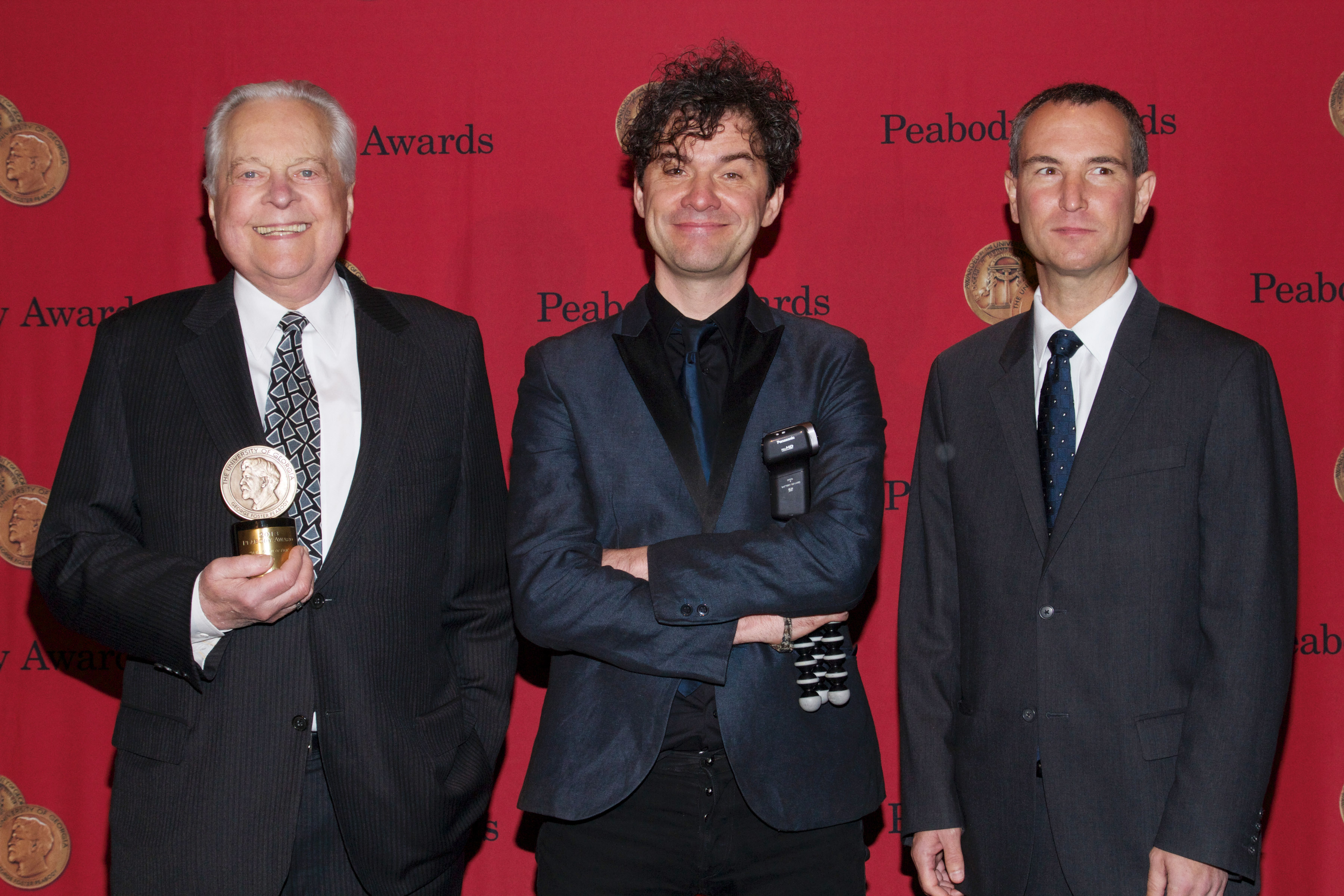 Robert Osbourne and Mark Cousins with the Peabody Award for TCM The Story of Film